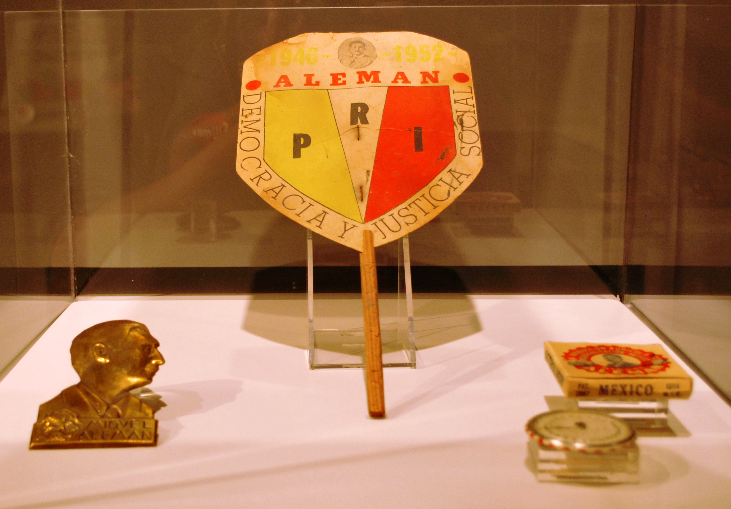 Items from Miguel Aleman's presidential campaign on display at MODO